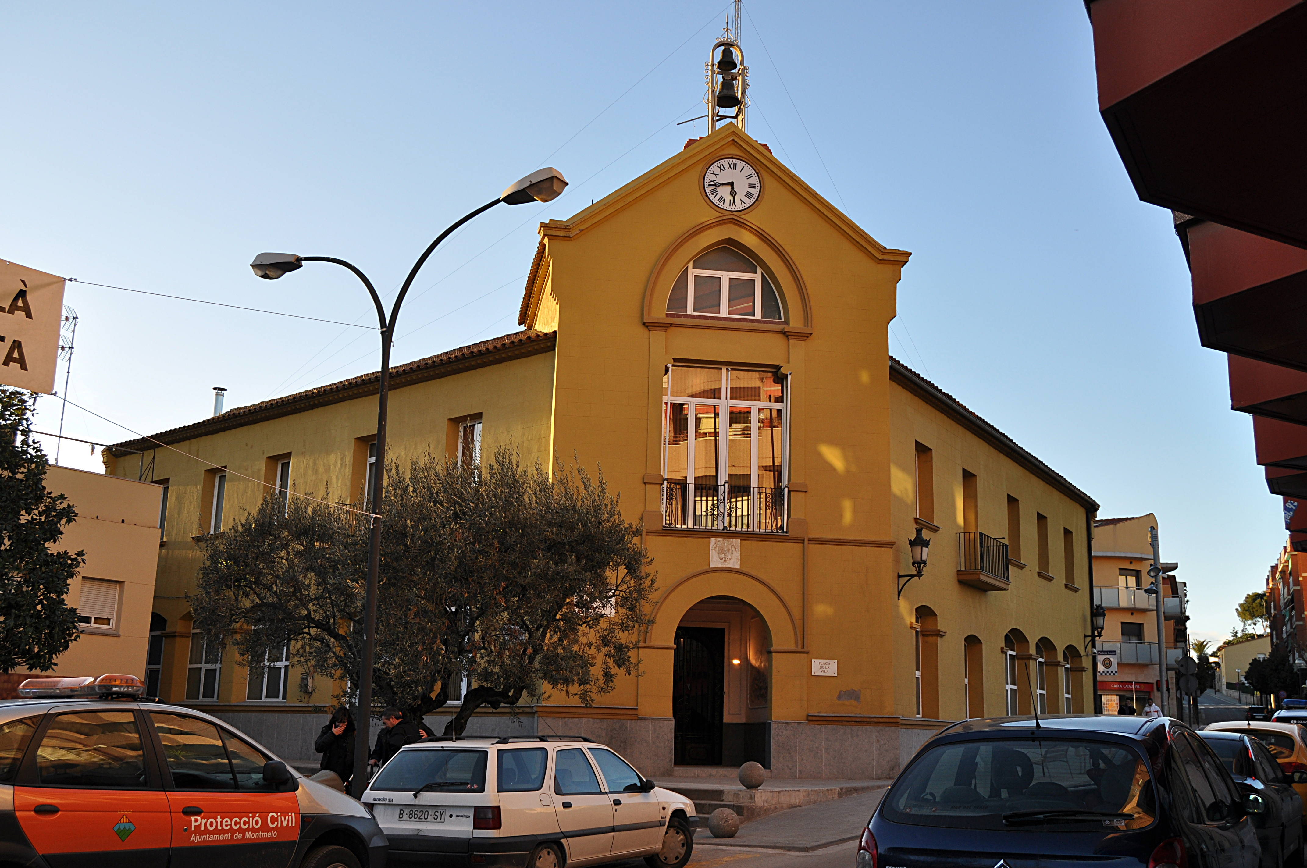 Montmeló town hall. See also: City hall.